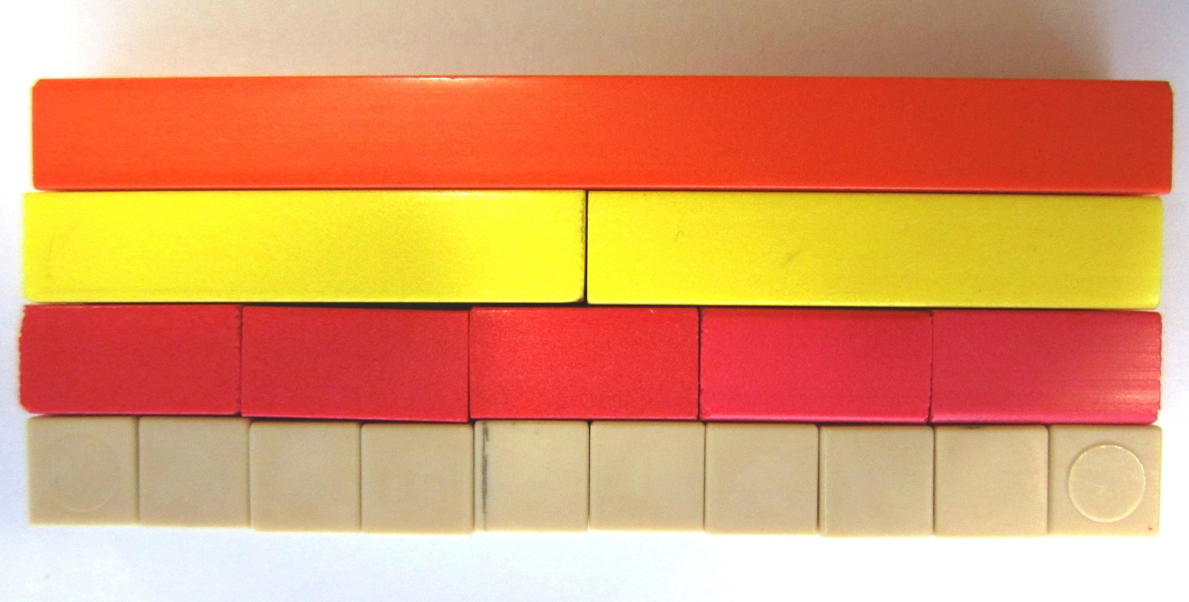 Cuisenaire rods used to illustrate the factors of ten